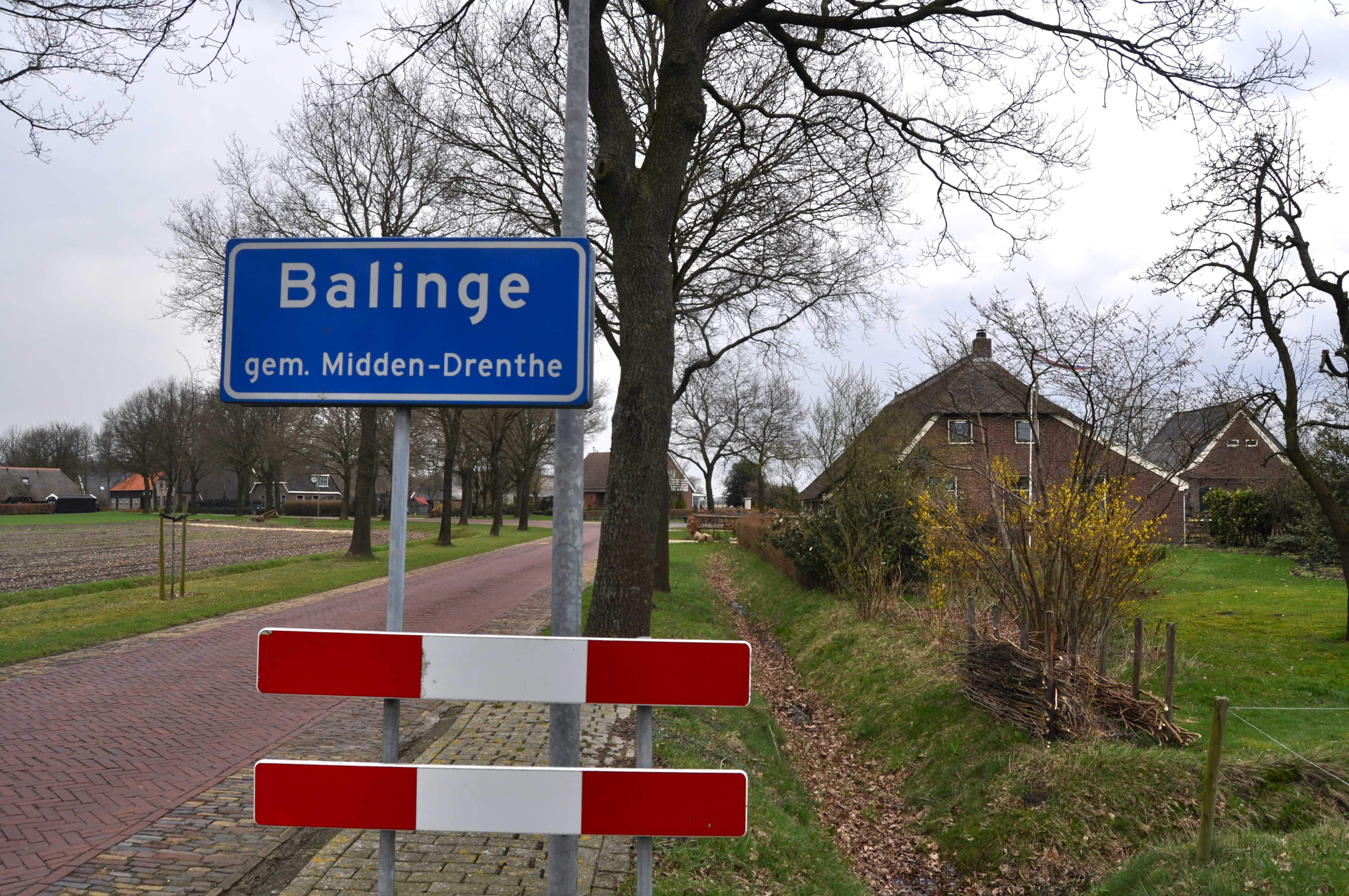 A name plate in the Dutch village of Balinge with a farmhouse in the background.